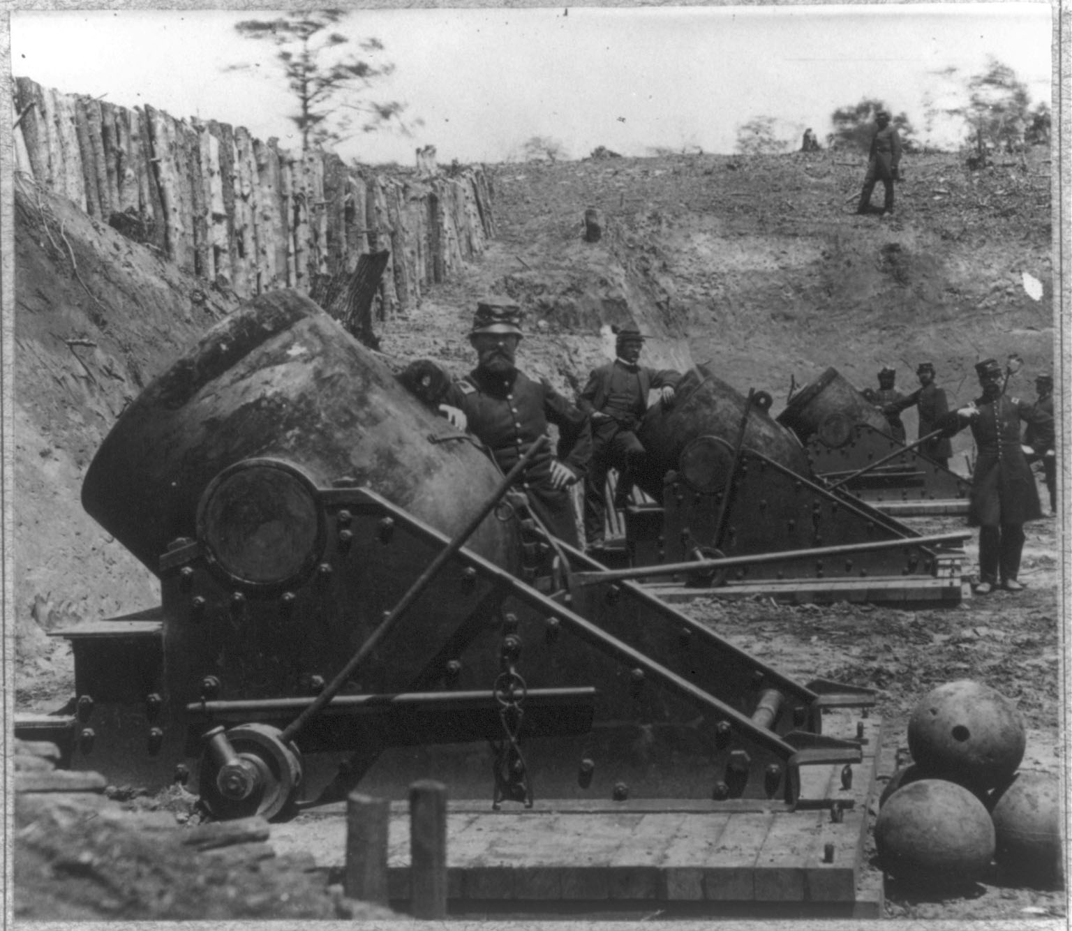 Siege of Yorktown, Va. Views of Federal Battery, No. 4 Federal battery with 13-inch seacoast mortars, Model 1861, during siege of Yorktown, Virginia 1862.